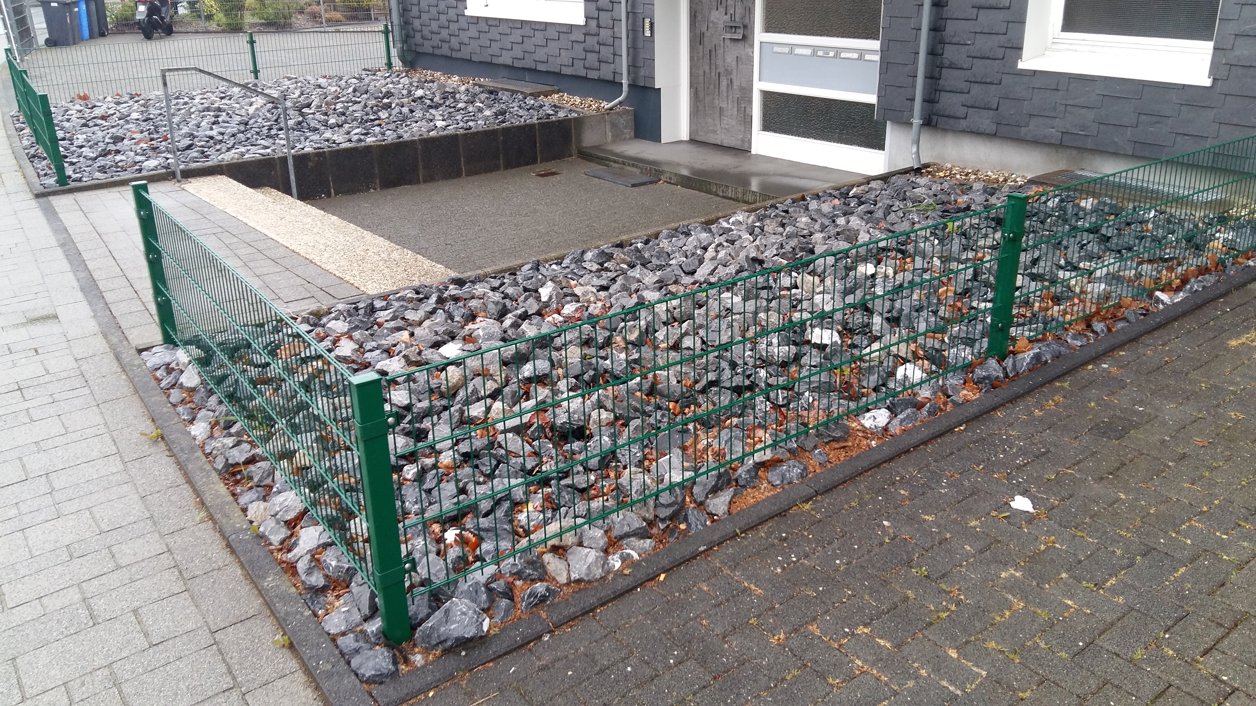 Front yard with coarse, crushed rocks/riprap instead of a garden, and steel fence